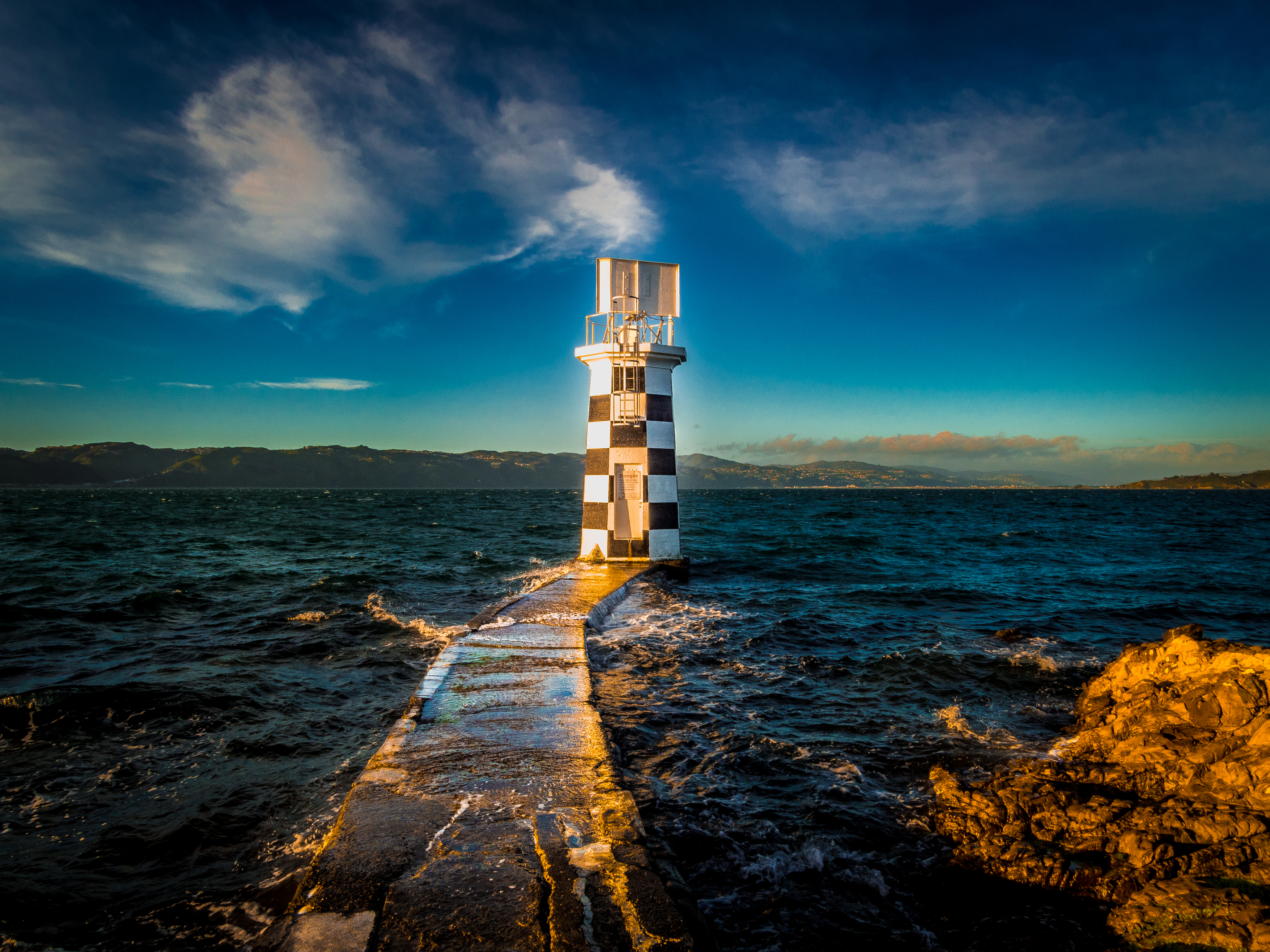 Point Halswell Lighthouse, Wellington NZ Samyang 12mm, f/16